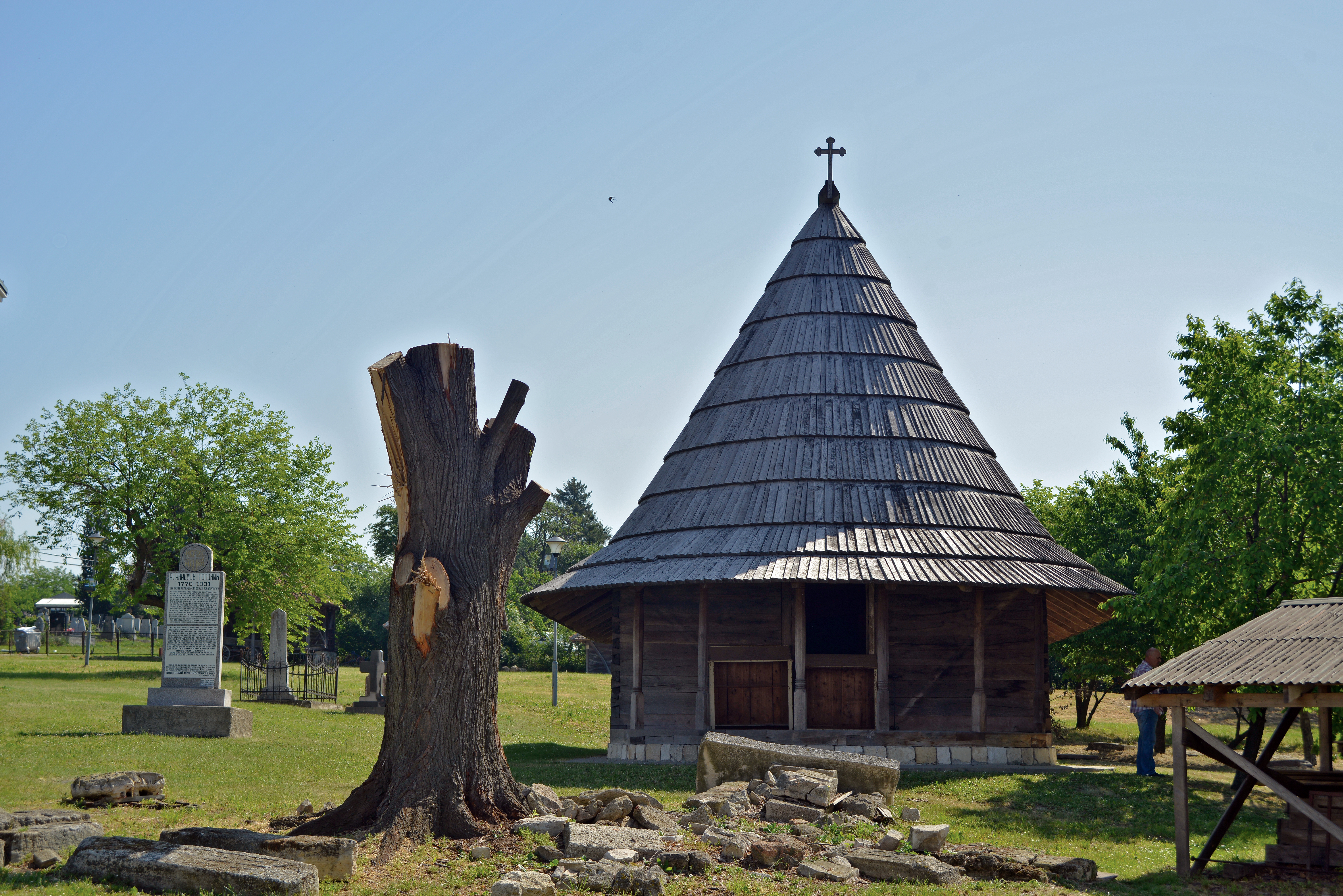 Old wooden Church of Forty martyrs in the churchyard of the Elijah the Prophet church in Vranic, Barajevo (Municipality of Belgrade, Serbia)